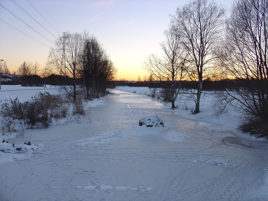 Sunset at the frozen Mätäjoki river in Kannelmäki, Helsinki, Finland.